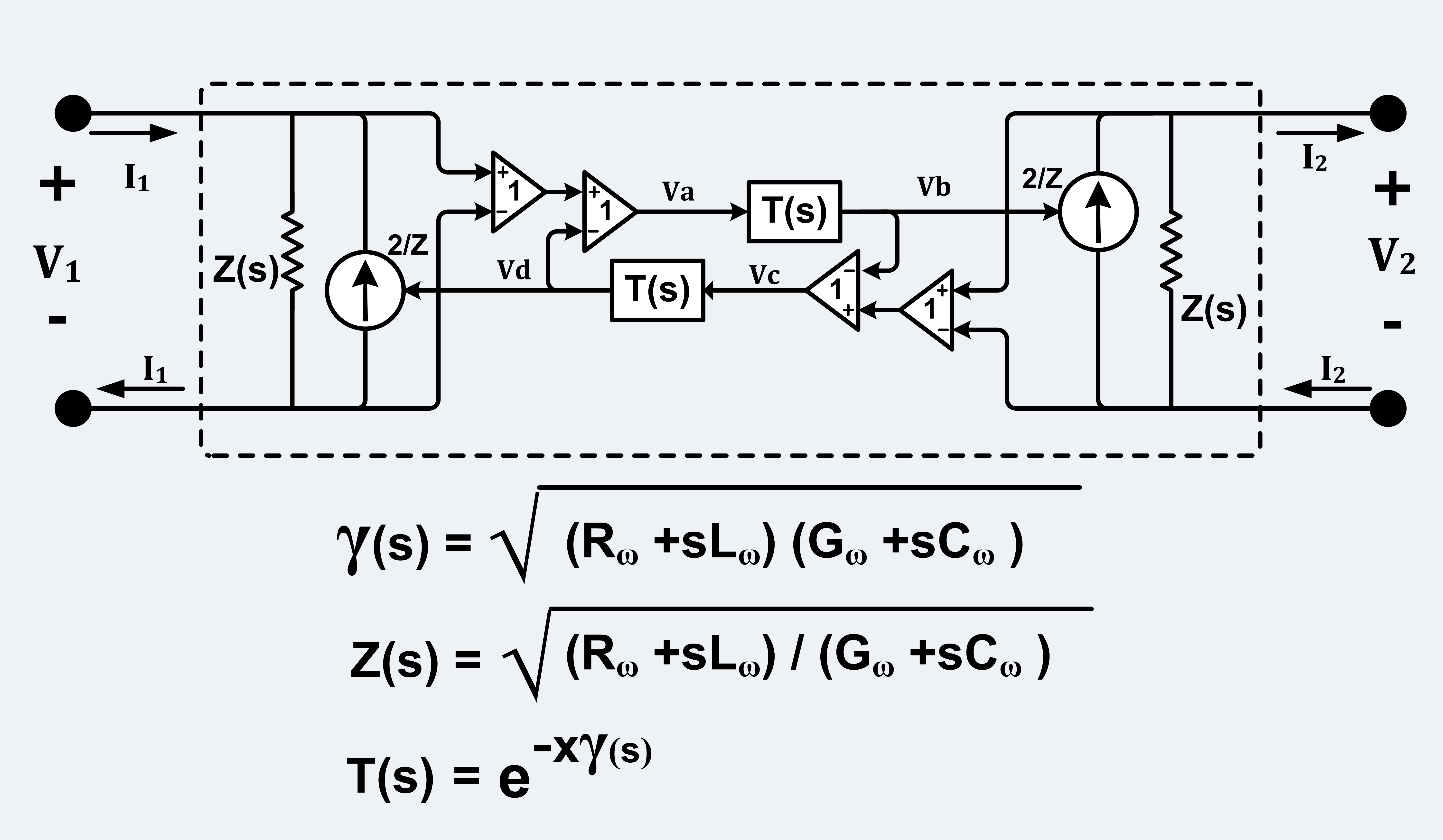 Equivalent Circuit of a balanced transmission line (such as twin-lead). where: 2/Z = trans-admittance of VCCS (Voltage Controlled Current Source), X = length of transmission line, Z(s) = characteristic impedance, T(s) = propagation function, γ(s) = propagation “constant”, s = jω, j²=-1. Note: Rω, Lω, Gω and Cω may be functions of frequency.